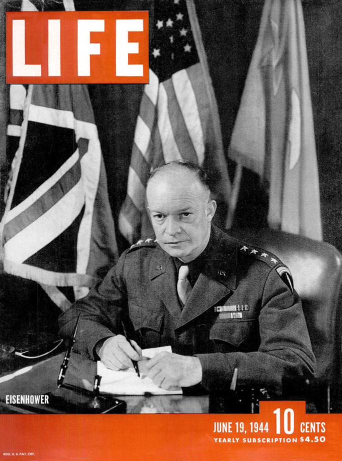 Cover of the 19 June 1944 issue of Life magazine with Gen. Dwight D. Eisenhower.